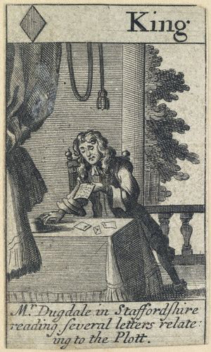 Playing card depicting Stephen Dugdale, perjuror in the Popish Plot